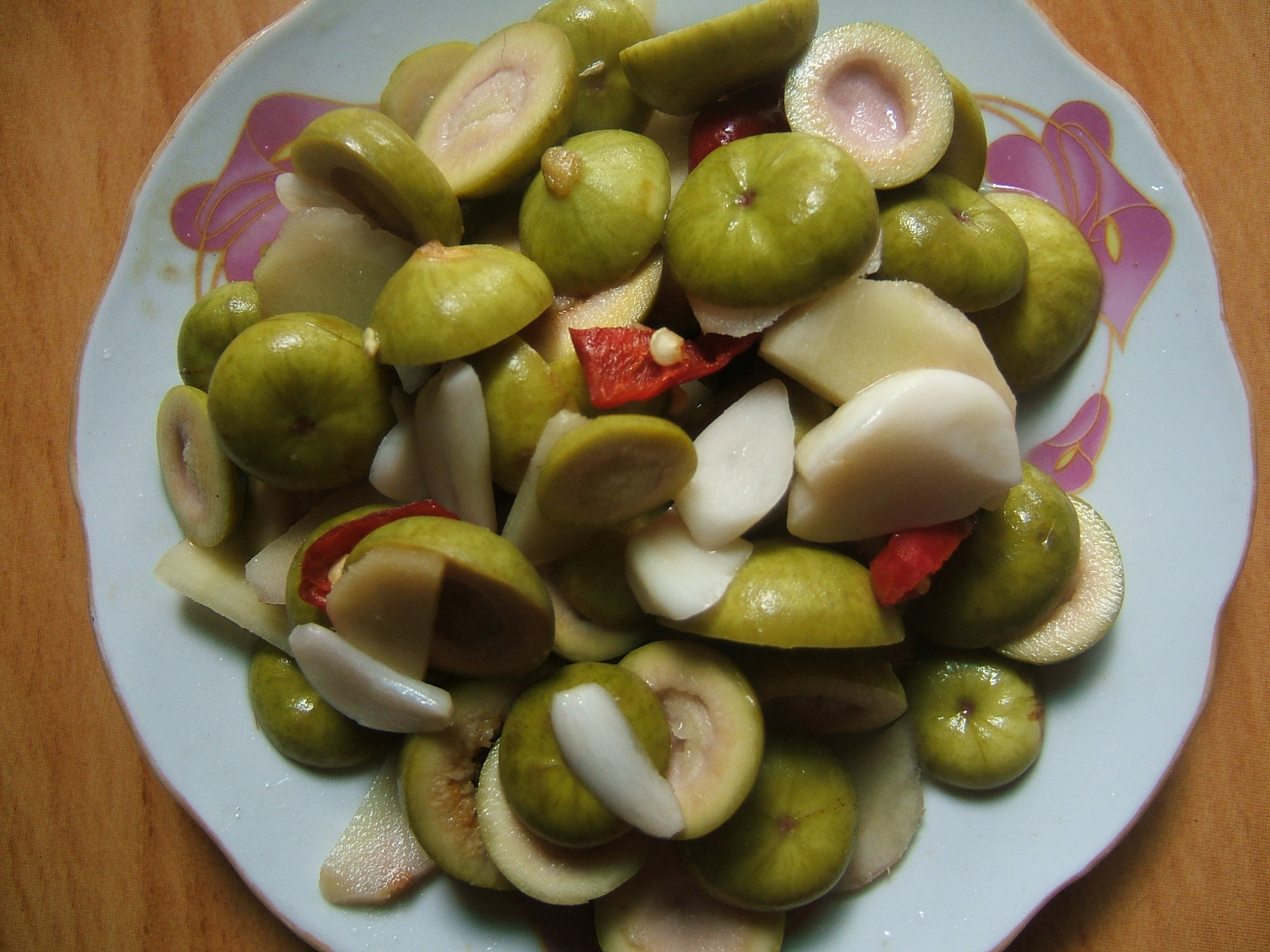 Pickled ficus racemosa fruits